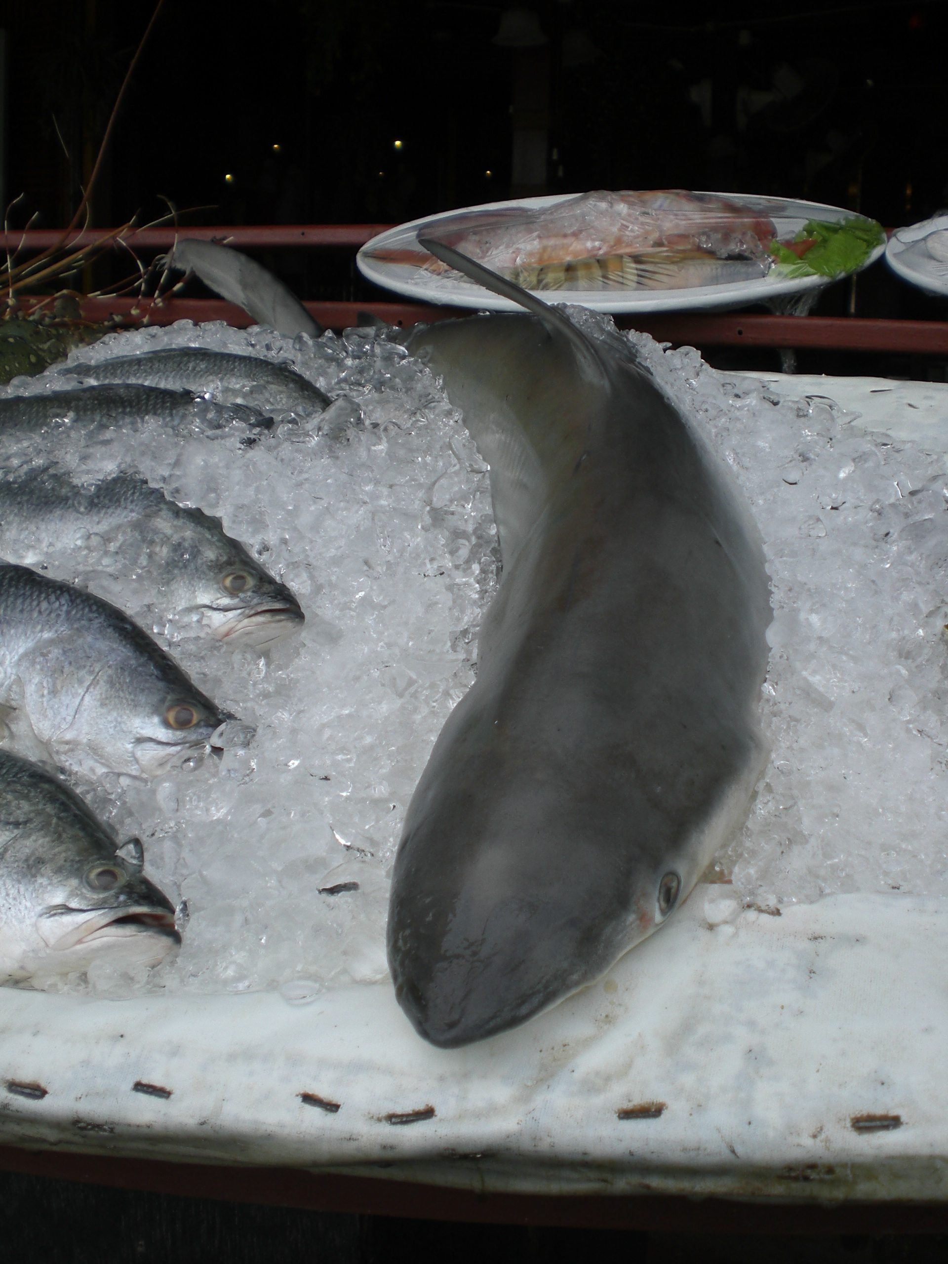 Shark for Barbecue in Haad Rin, Koh Phangan, Thailand